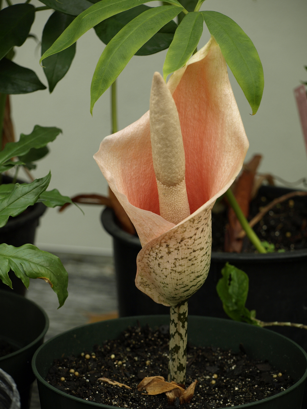 Florida International University greenhouse, Miami, FL